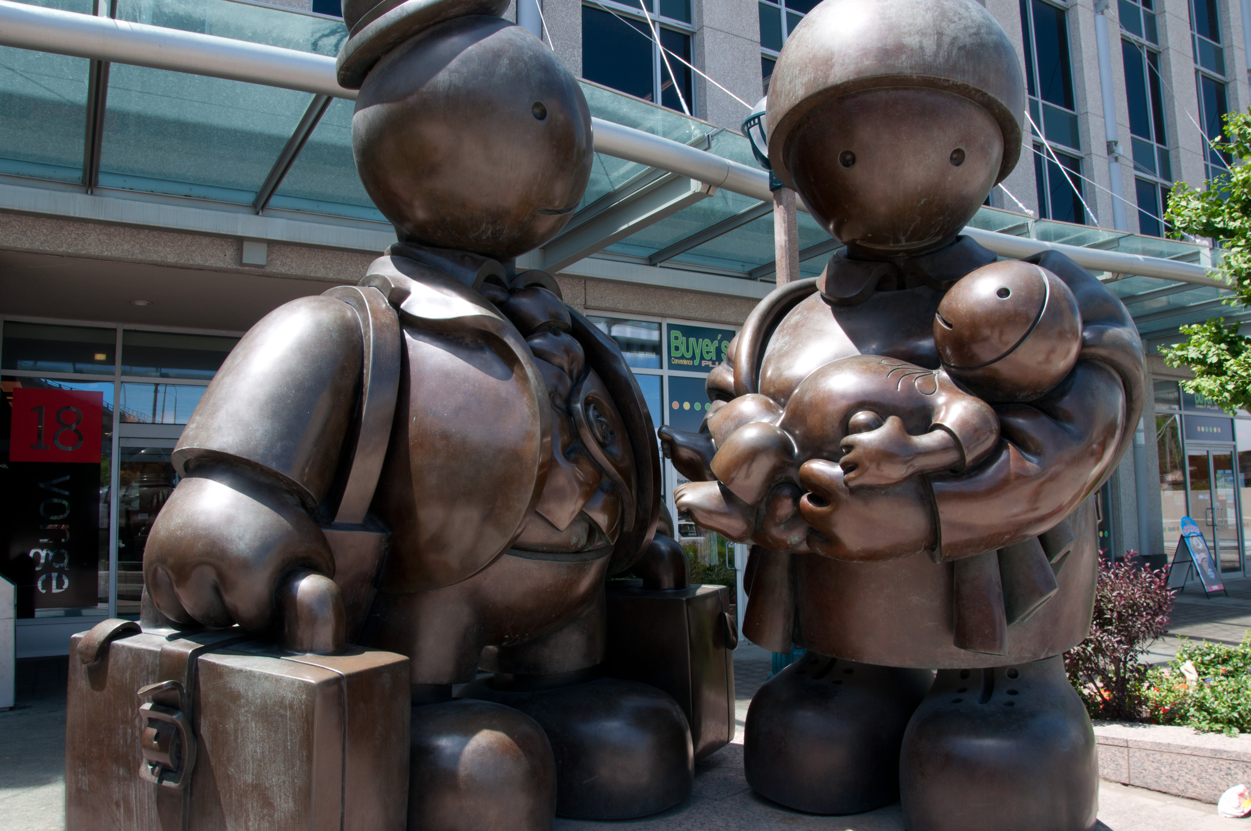 "Immigrant Family" (bronze, 2007) by Tom Otterness, located at 18 Yonge Street, Toronto, Ontario, Canada.